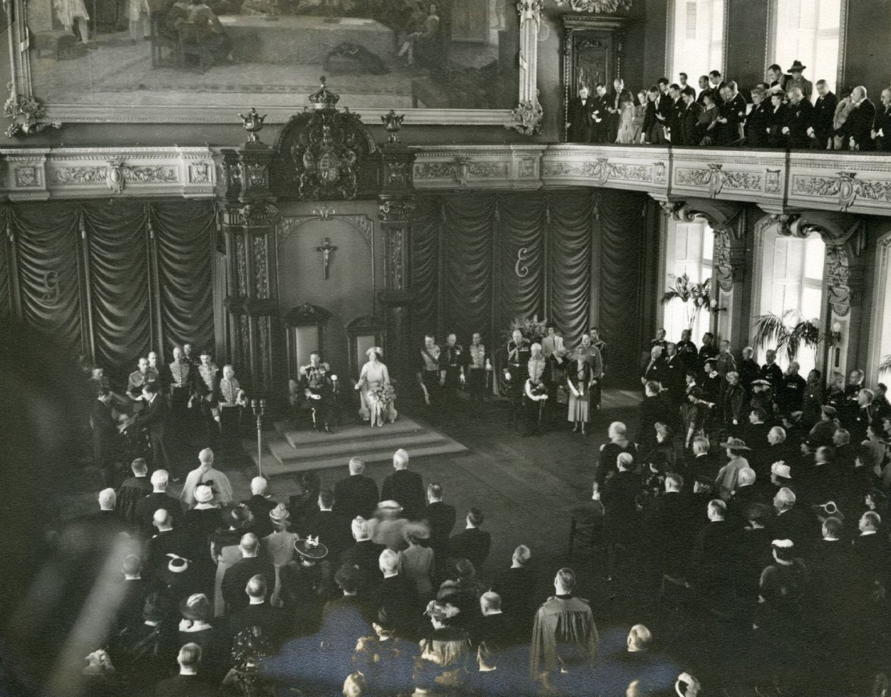 George VI and Elizabeth in the chamber of the Legislative Council of Quebec during their royal tour of Canada in 1939.